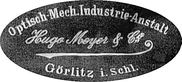 Hugo Meyer is the name of an optics company from Goerlitz, Germany. This batch shows its full former name "Hugo Meyer et Co., Optisch-Mechanische Industrie-Anstalt, Goerlitz in Sachsen".